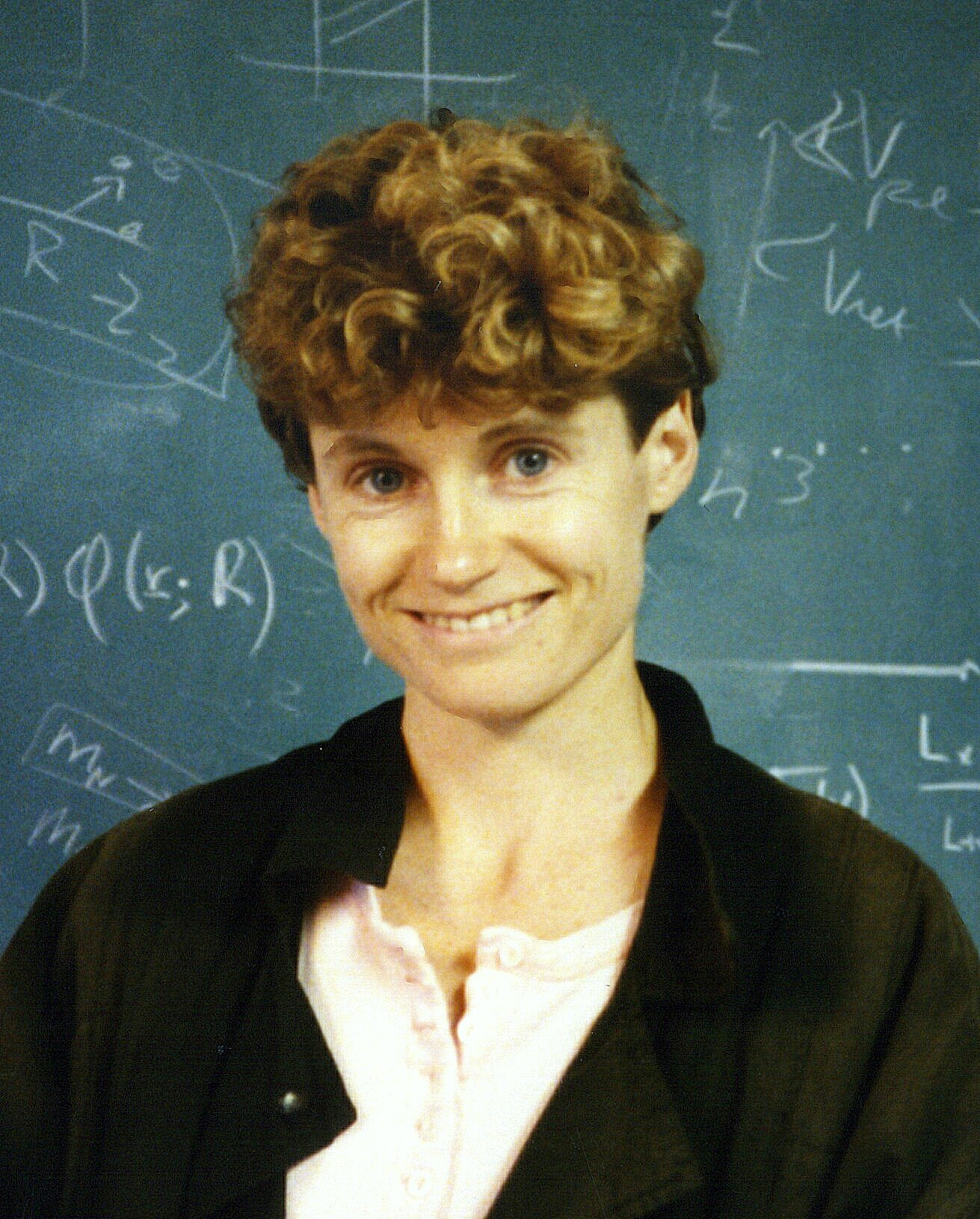 Canadian-American astrophysicist and poet Rebecca Elson (1987)